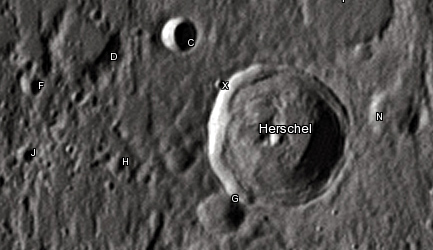 Herschel lunar crater as seen from Earth with satellite craters labeled